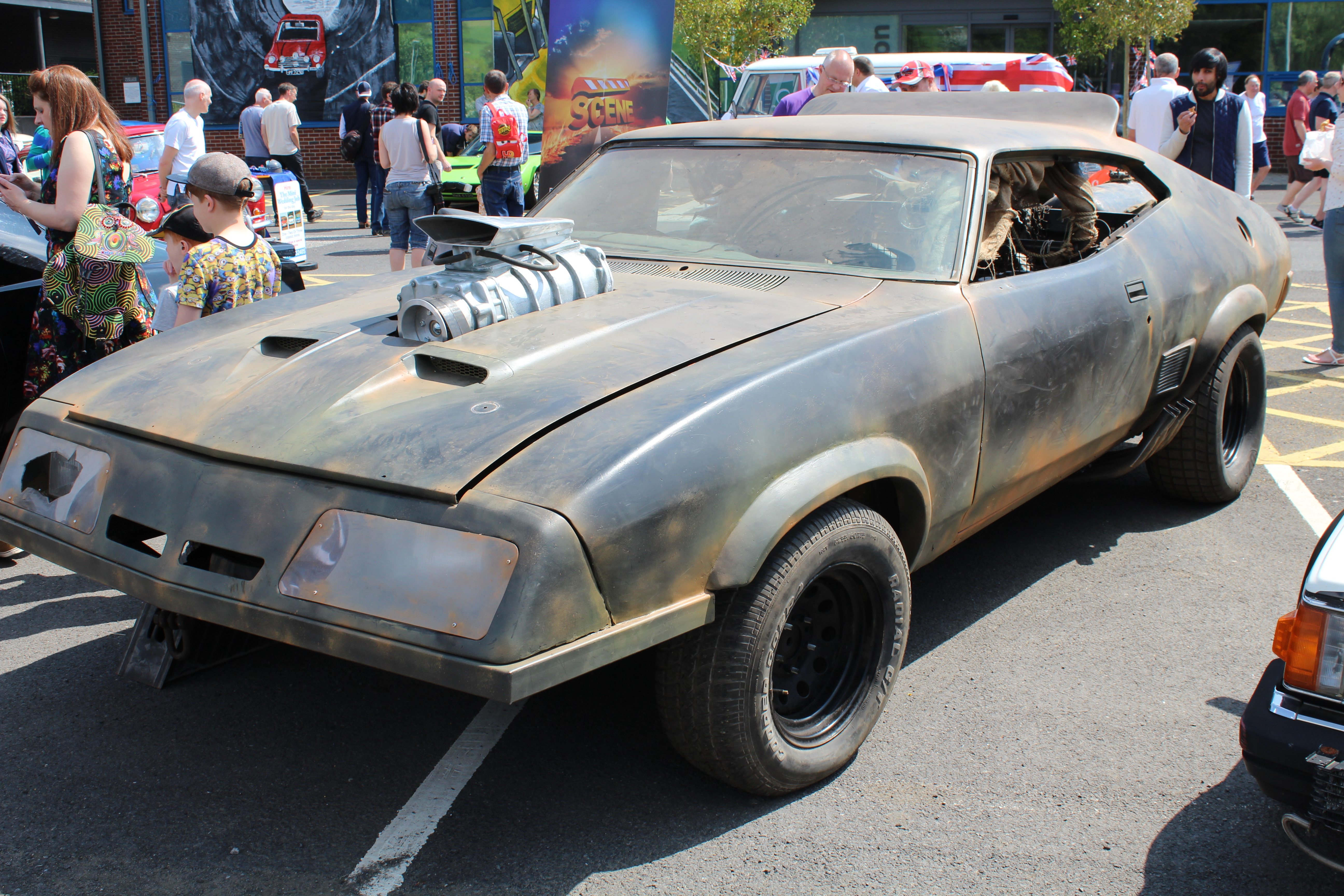 Nelson and Colne Collage Pageant Of Power Event May 29th 2016